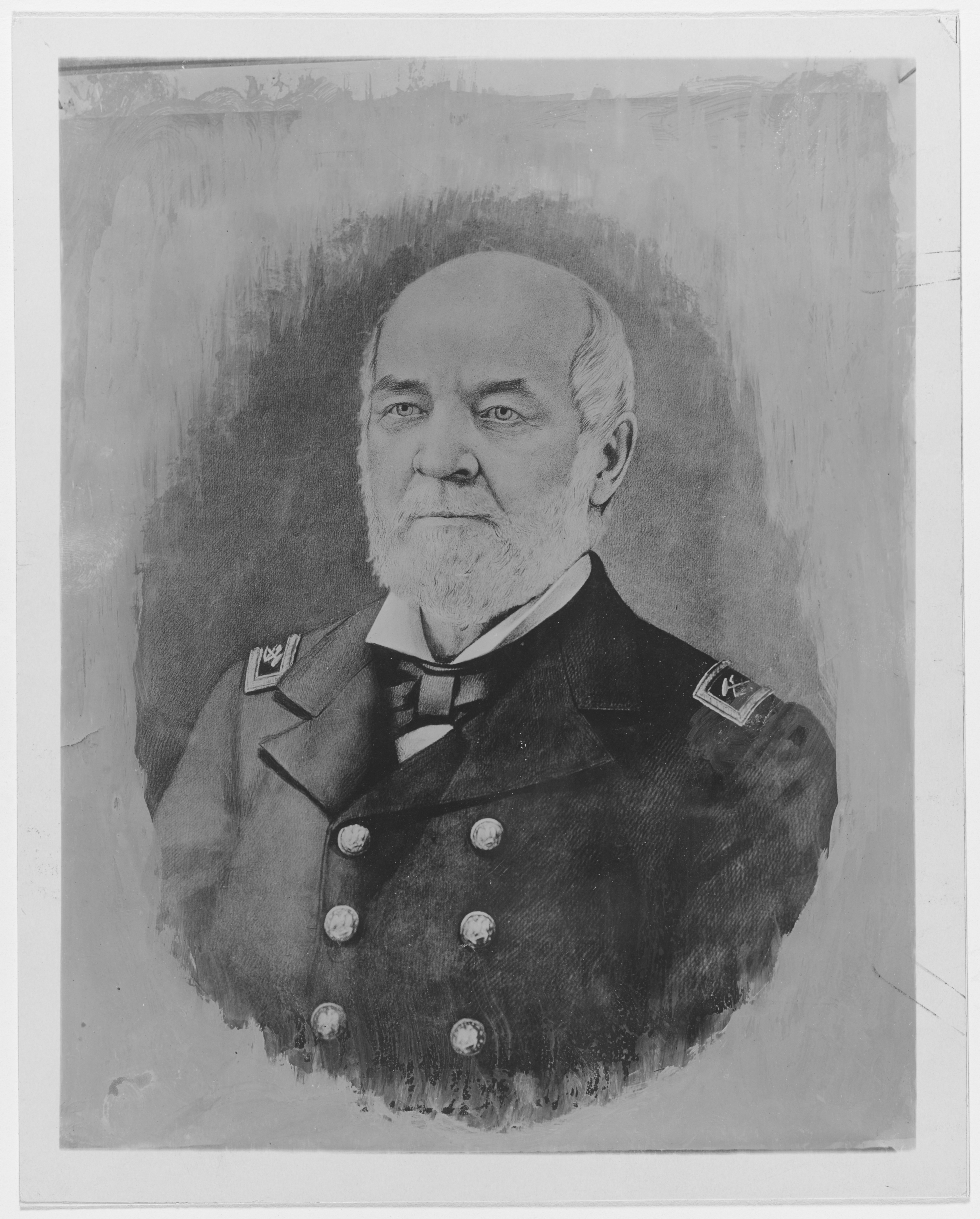 NH 44163 Commander Cornelius K. Stribling, USN